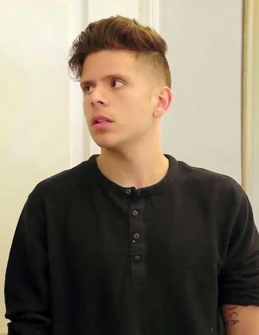 YouTuber Rudy Mancuso in April 2019